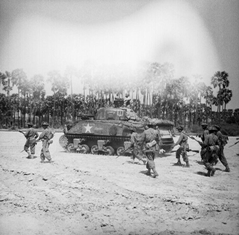 The War in the Far East- the Burma Campaign 1941-1945 The Campaign in Mandalay February - March 1945: Soldiers of the Punjab Rifles advance toward Meiktila under cover of a Sherman tank.